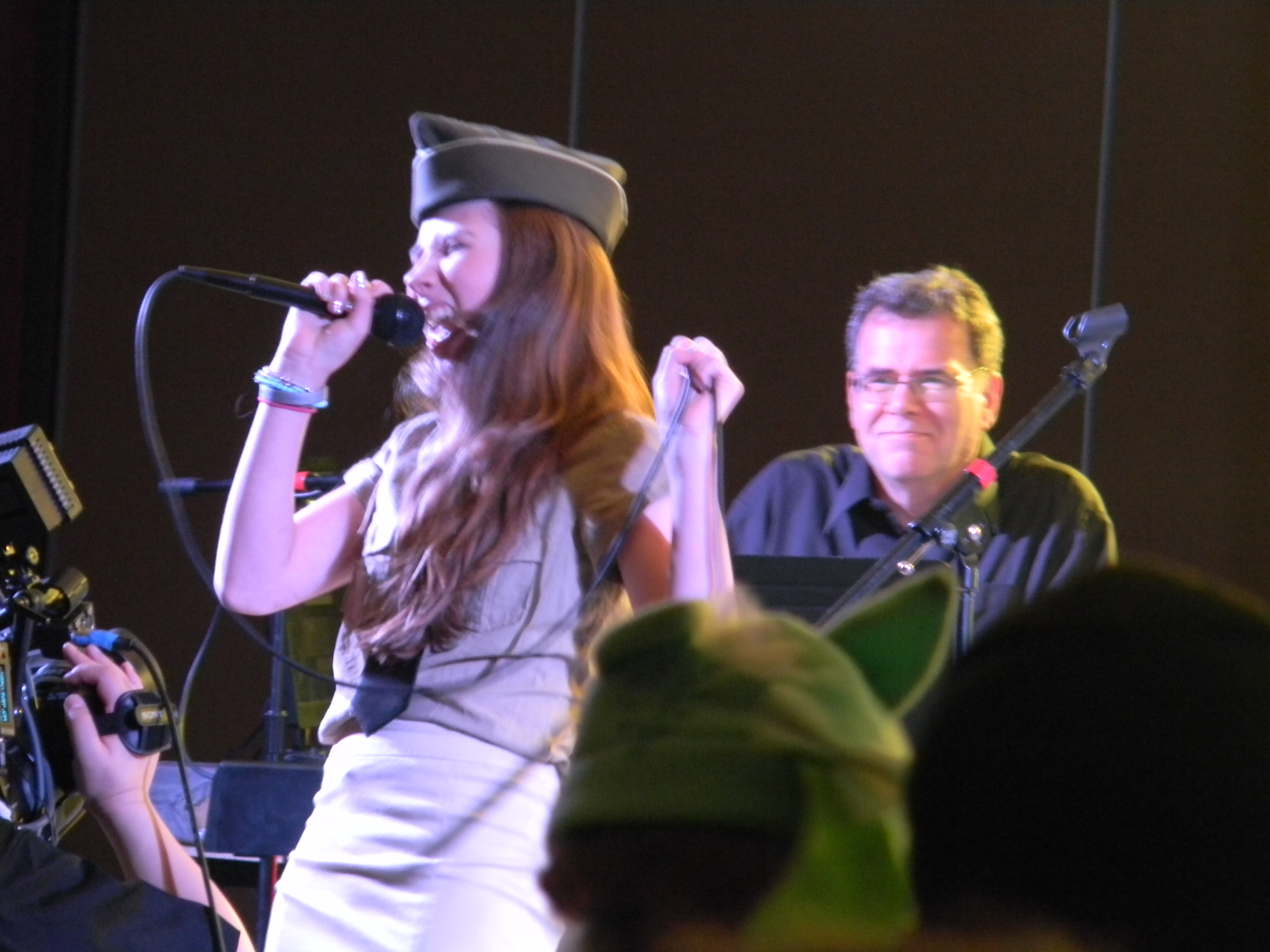 Michelle Creber and her father Michael Creber performing at the Everfree NW Convenction (Seattle WA) 2013